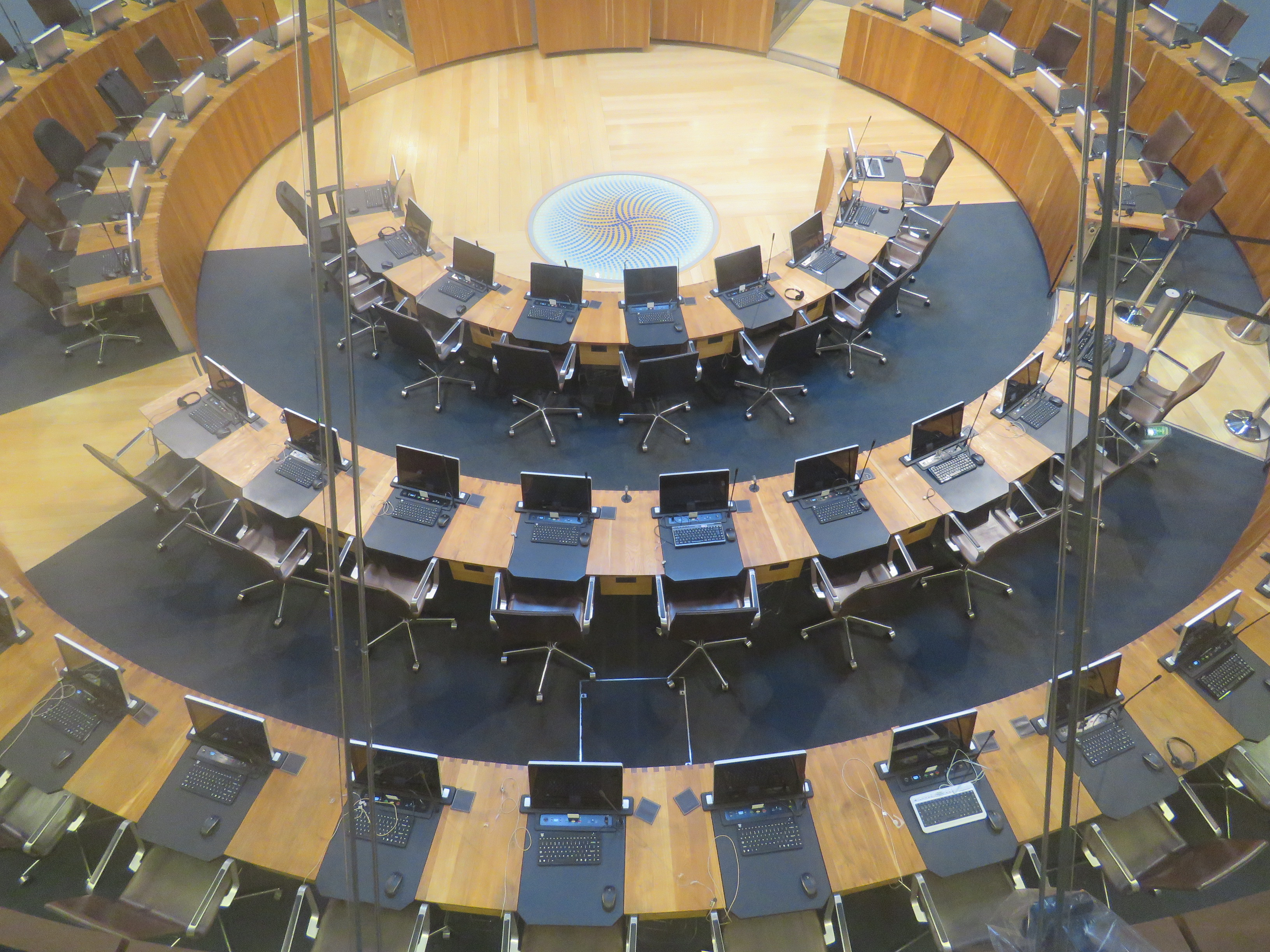 chamber of Y Senedd, Cardiff, Wales